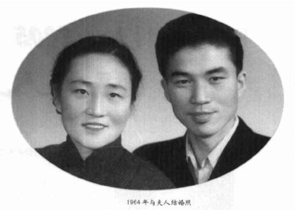 Jiang Jingshan & his wife, 1964